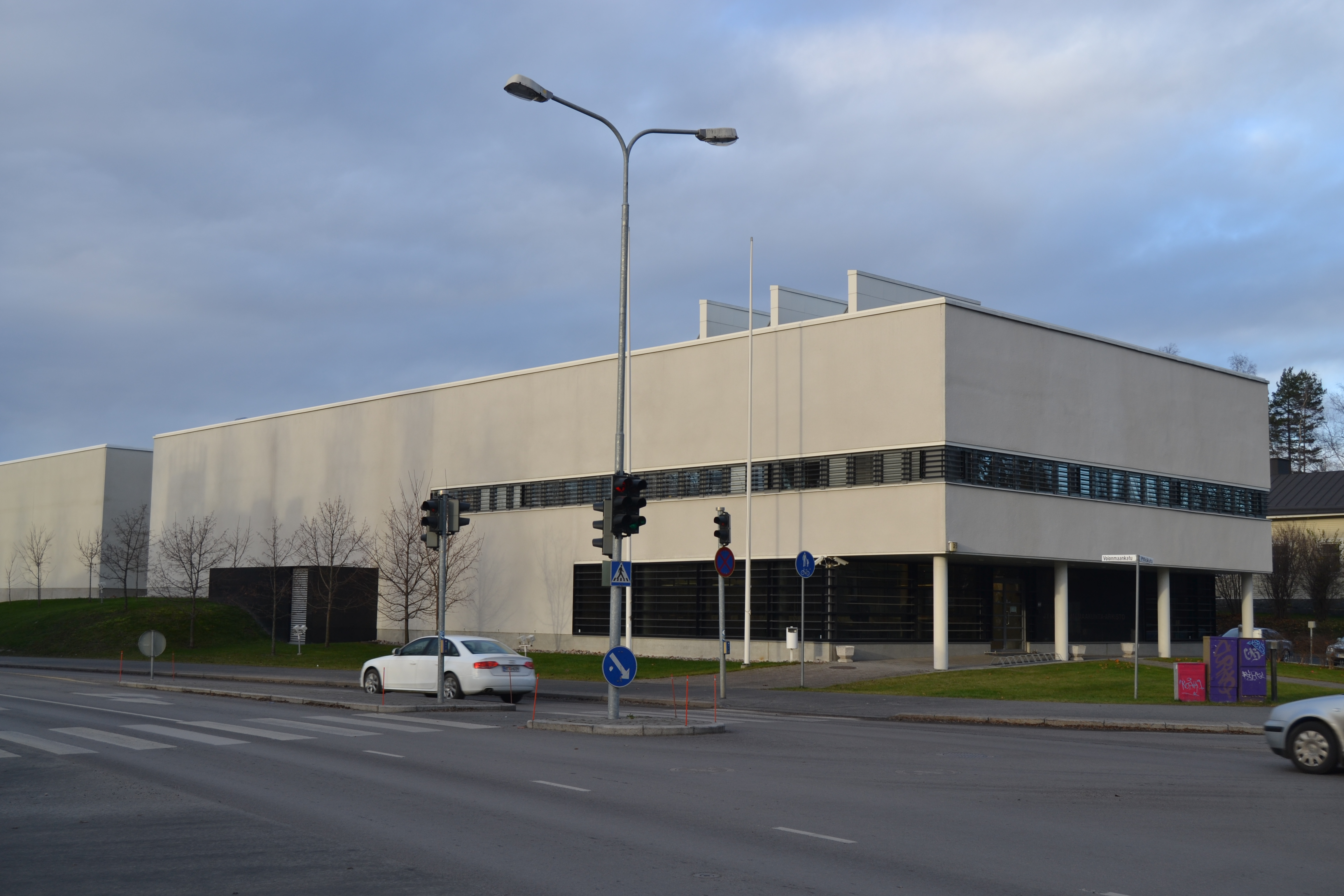 Provincial Archives of Jyväskylä, Finland